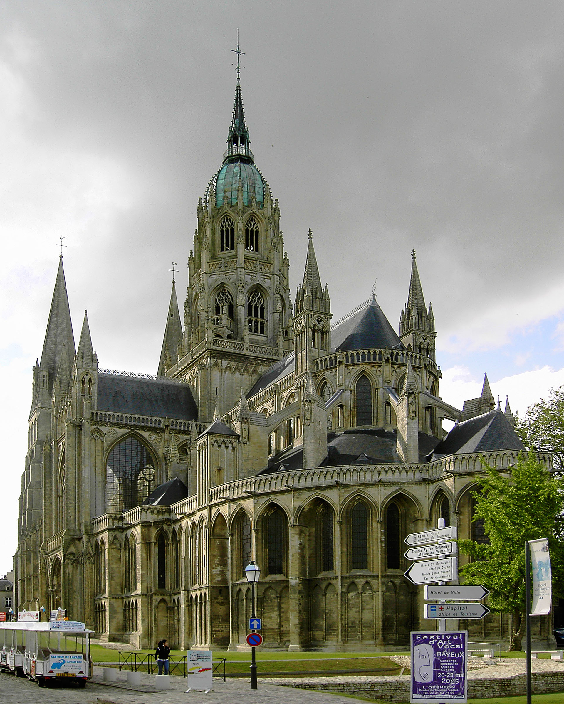 Bayeux Cathedral Summer 2005